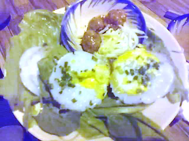 Vietnamese "banh can" (bánh căn) with vegetableTiếng Việt: Bánh căn kèm rau và xíu mại